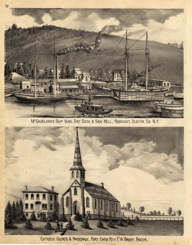 Scanned page of an atlas of Ulster County, New York prepared by F. W. Beers and first published in 1875.